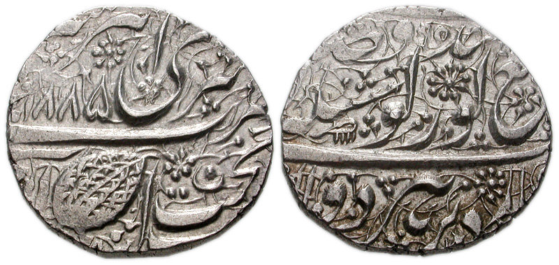 INDIA, Independent States. Sikh Empire. Ranjit Singh. 1799-1839. AR Rupee (25mm, 11.12 g, 5h). Amritsar mint. Dated VS 1885/95 (AD 1838). Nanakshahi couplet; symbol: segmented crescent / Date and mint with pipal leaf. Herrli 01.07.04; KM -. EF.